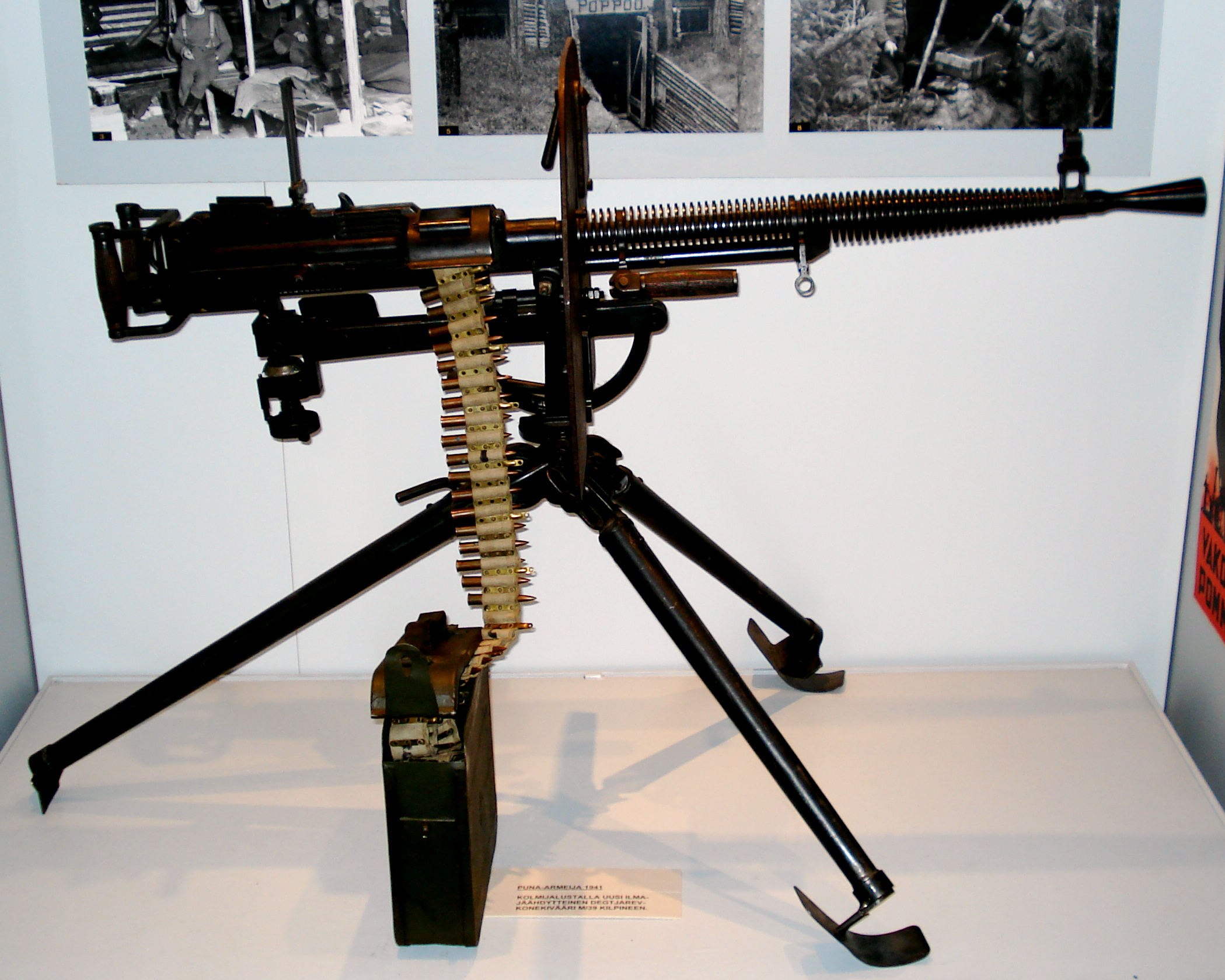 Soviet DS-39 machine gun